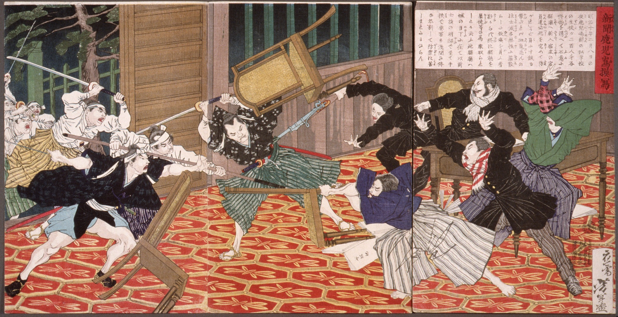 Japan, 1877, 2nd month Prints; woodcuts Triptych; color woodblock prints 14 3/16 x 27 7/8 in. (36.0 x 70.8 cm) Herbert R. Cole Collection (M.84.31.47a-c) Japanese Art